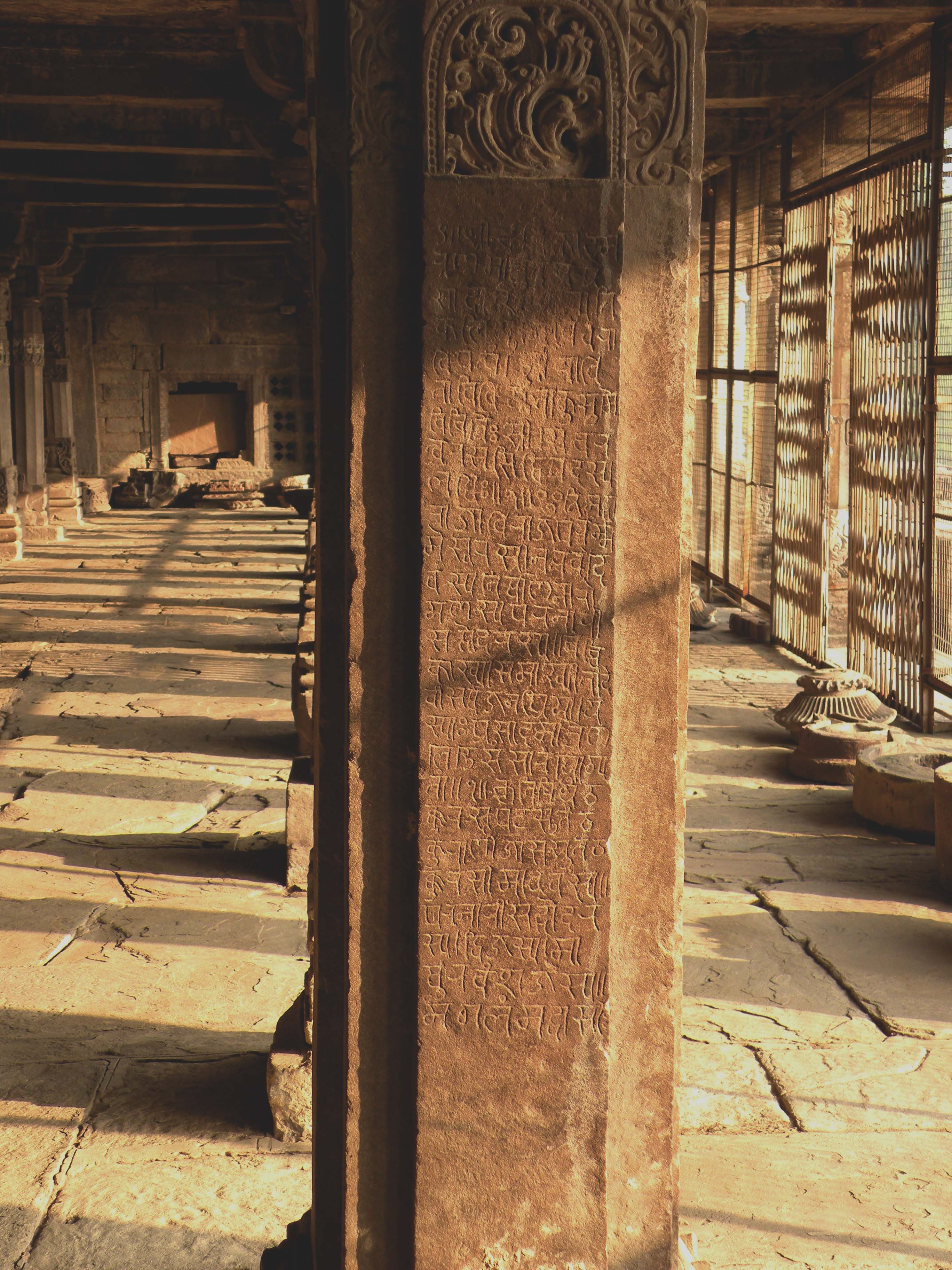 Pillar in the Bijamaṇḍal at Vidiśā (MP, India) engraved with an inscription of king Naravarman